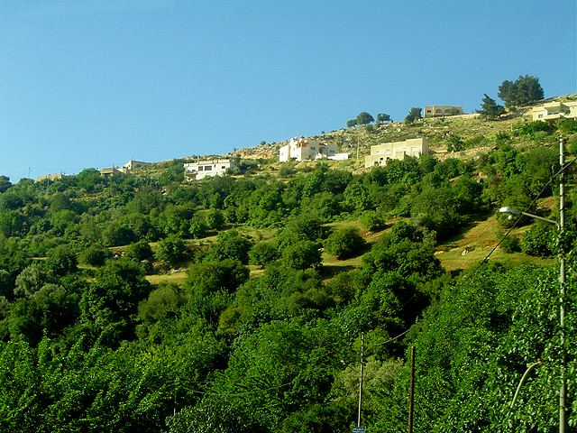 A view of Wadi Shu'aib, in Salt - Jordan Photograph by: Omernos